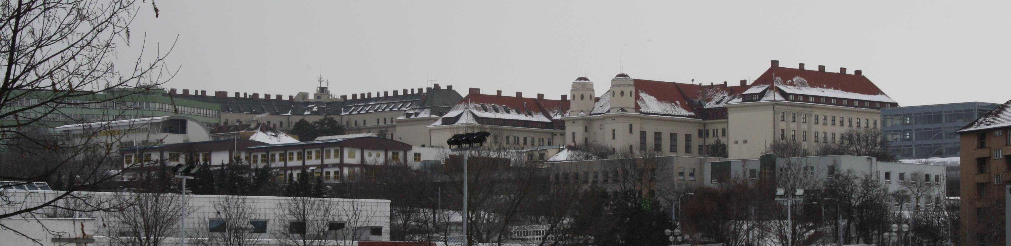 Overview to Mendel University in Brno, Czech Republic.jpg